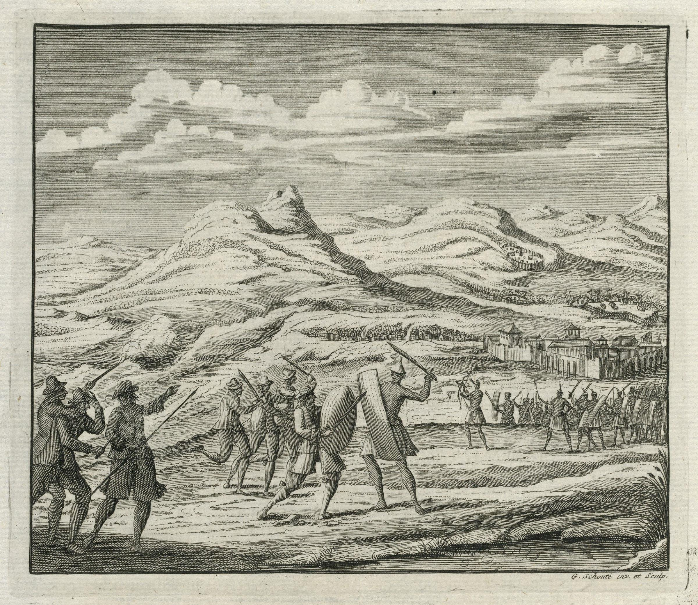 Conflict between Dutch and Indonesians in the mountains at Noela. The illustration is taken from the work 'Oud en Nieuw Oost-Indiën' by François Valentyn. This battle forms part of the "Amboinese wars" the VOC waged with the Moluccans in the period 1651-1656. This print depicts the defeat of the Moluccan warlord Madjira at Noela in 1652.